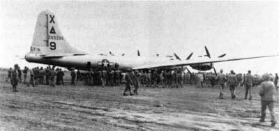 Dinah Might B-29 after making an emergency landing on Iwo Jima 4 March 1945